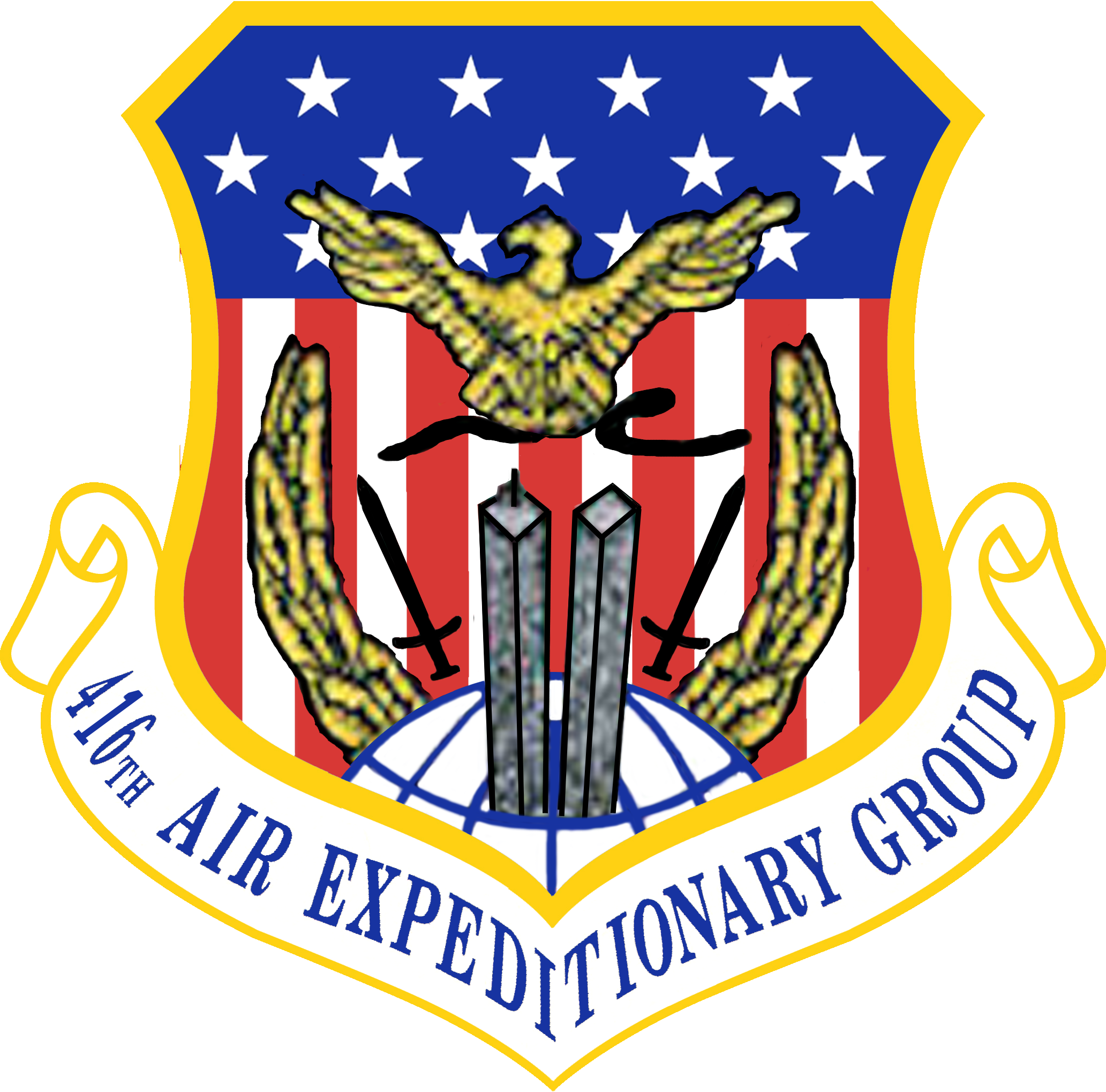 Emblem of the United States Air Force 416th Air Expeditionary Group